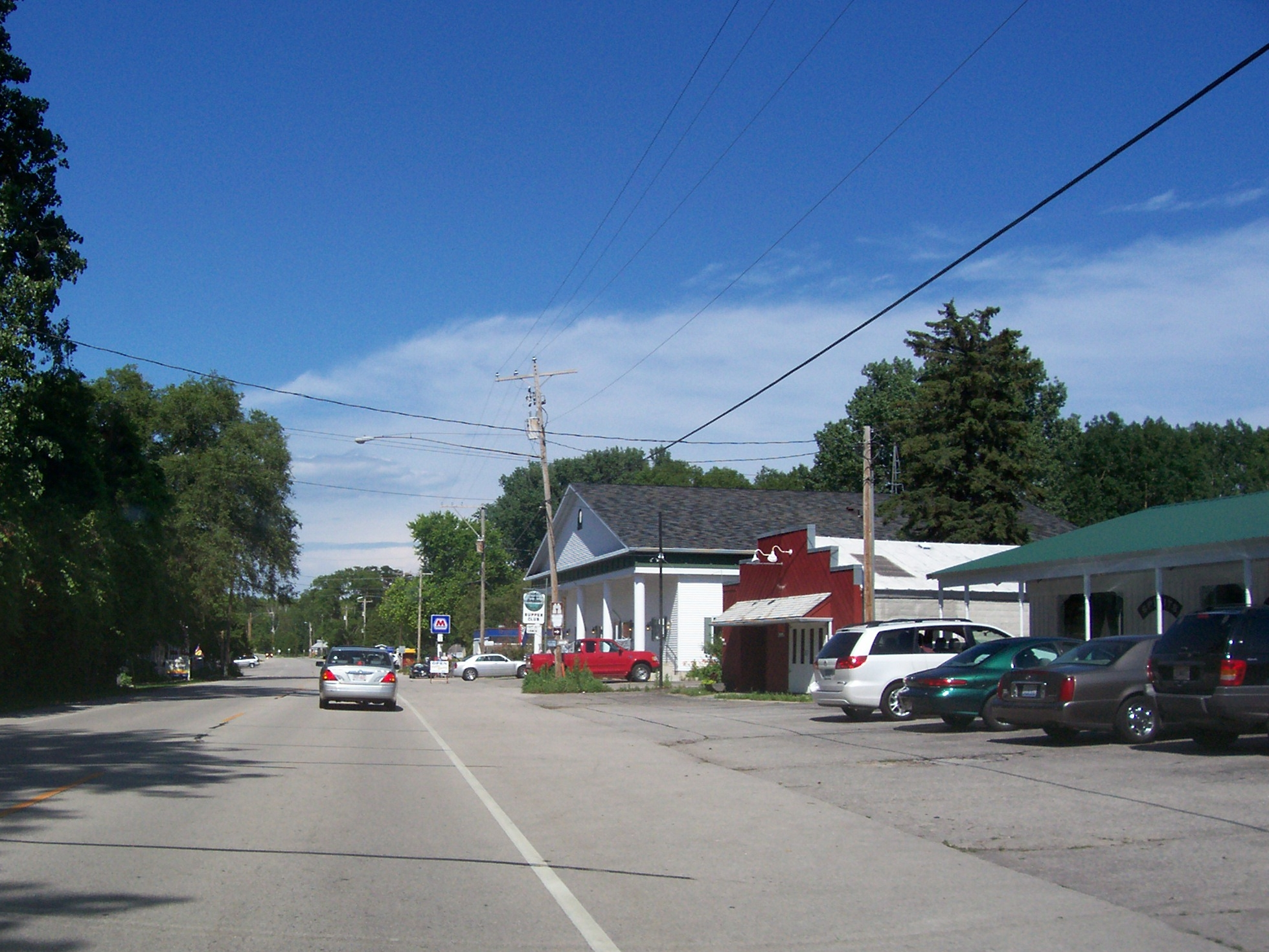 Looking north at downtown Ellison Bay, Wisconsin, USA on Wisconsin Highway 42.